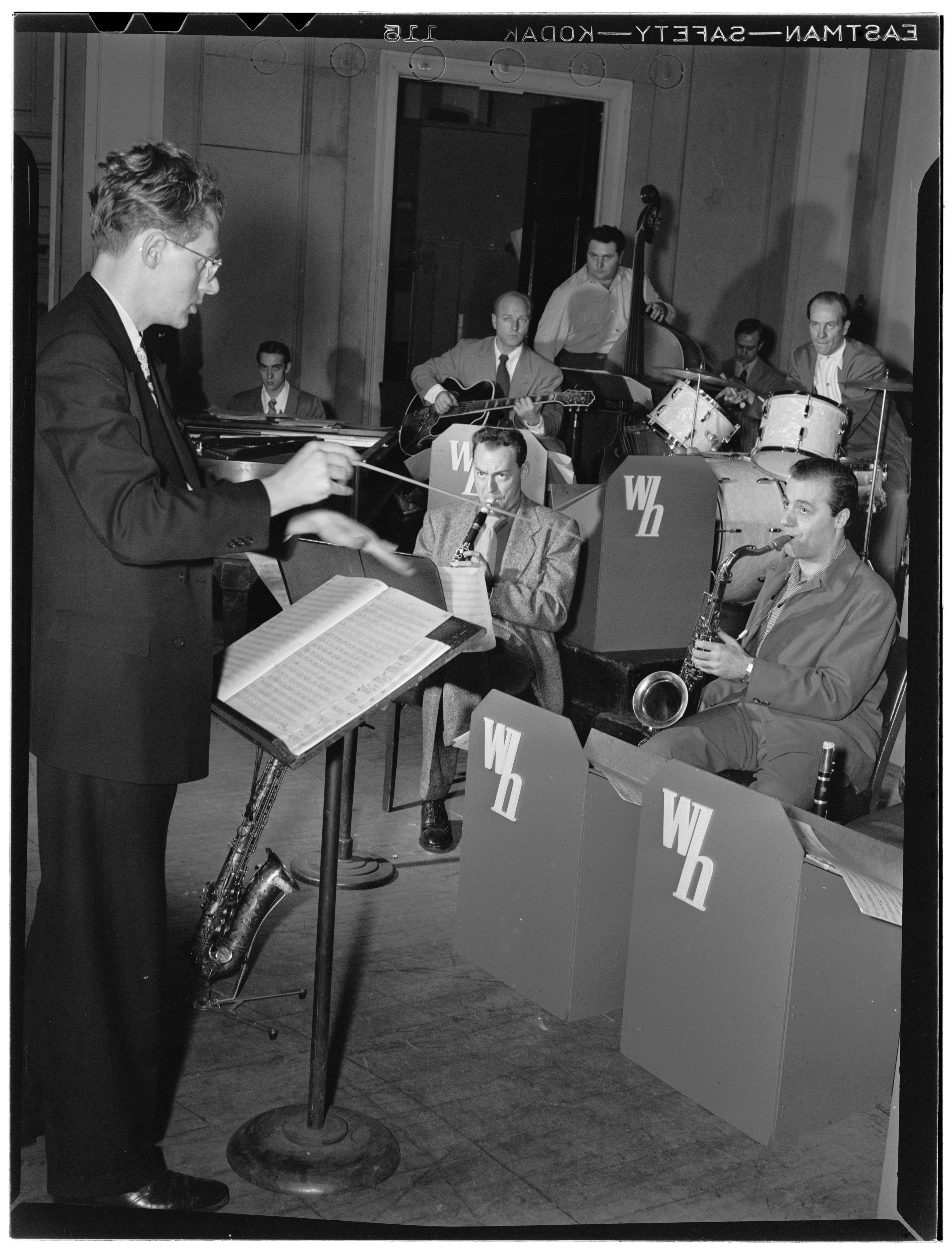 Portrait of Walter Hendl, Tony Aless, Billy Bauer, Chubby Jackson, Don Lamond, Woody Herman, and Flip Phillips, Carnegie Hall(?), New York, N.Y.(?), ca. Apr. 1946